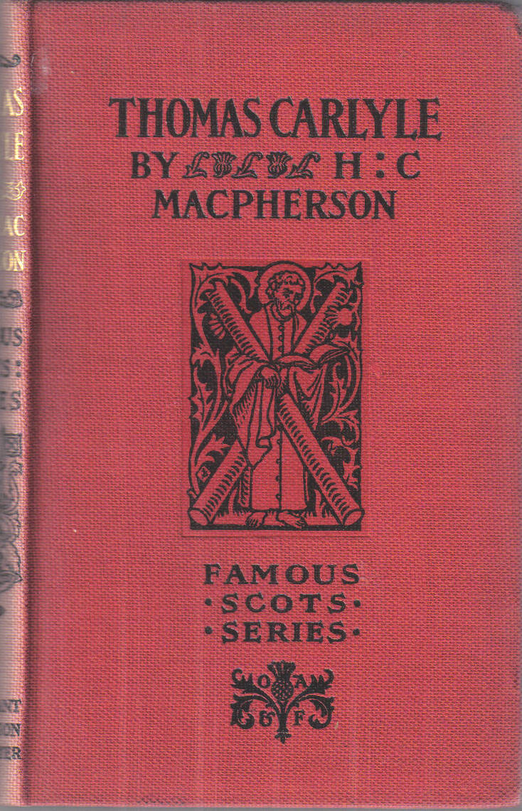 Scanned image of front cover of book entitled "Thomas Carlyle" for inclusion in Wikipedia entry "Famous Scots Series". The book belongs to me.